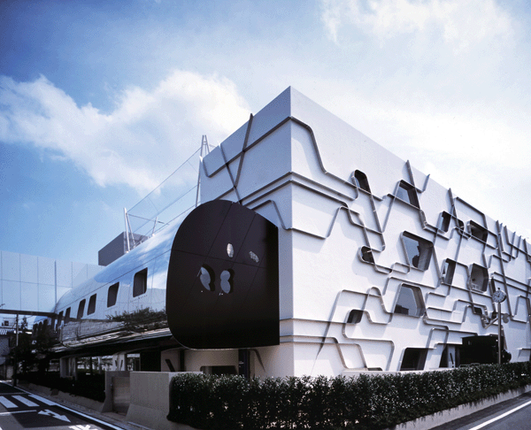 Showa Tetsudo High School